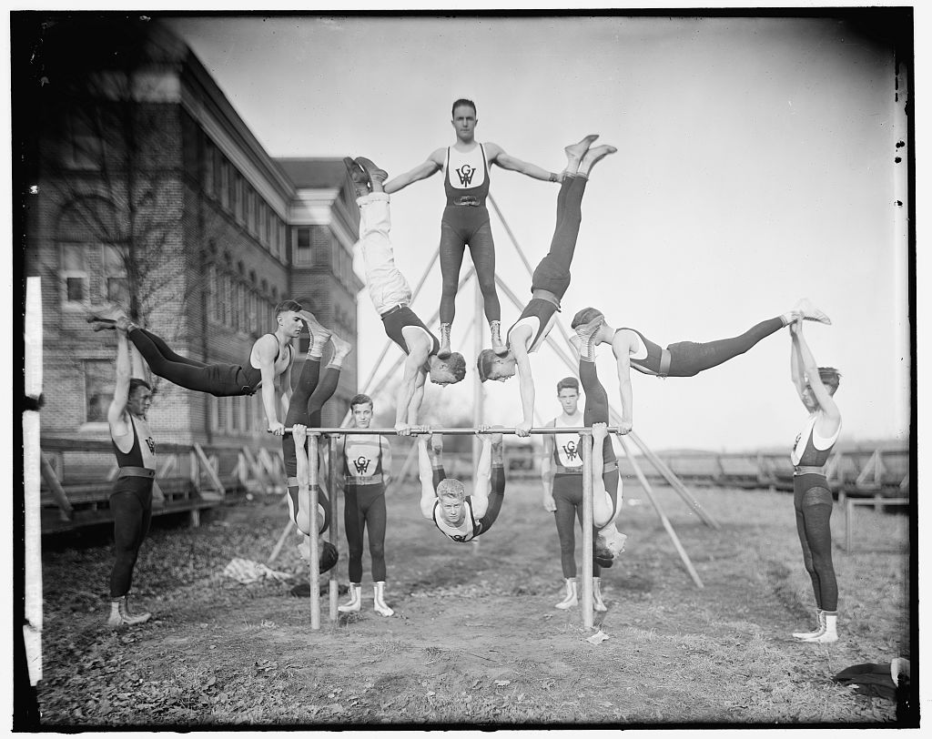 Woodberry Forest Gymnasium Team, Woodberry Forest School, Virginia. Glass negative from the Harris & Ewing Collection, Library of Congress Prints and Photograph Division, Library of Congress, Washington, D.C.